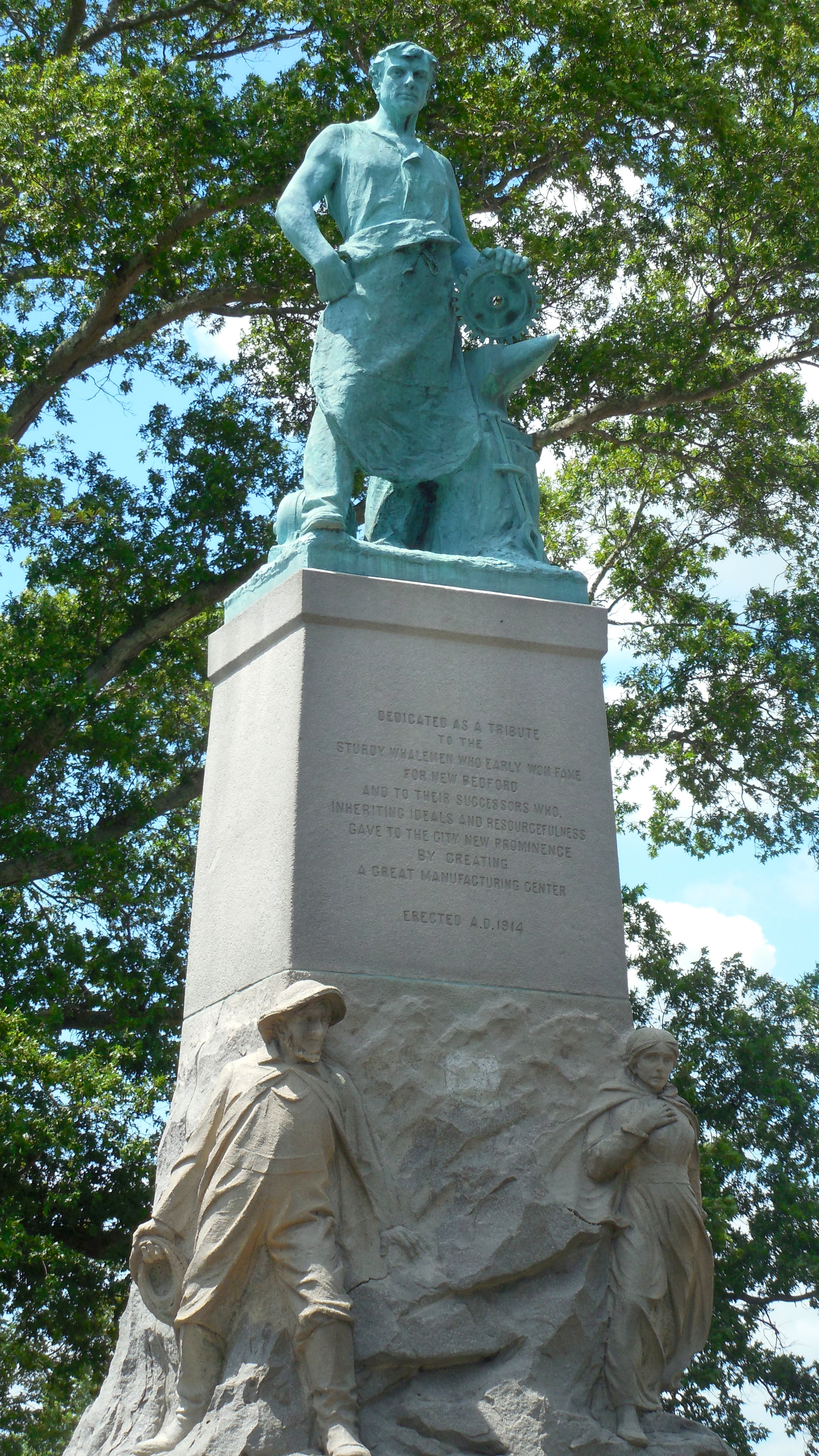 The Barnard Monument in Buttonwood Park Historic District in New Bedford, Massachusetts, 2016. Sculpted by George Julian Zolnay, and commissioned by George D. Barnard. Dedicated on 19 September 1914.